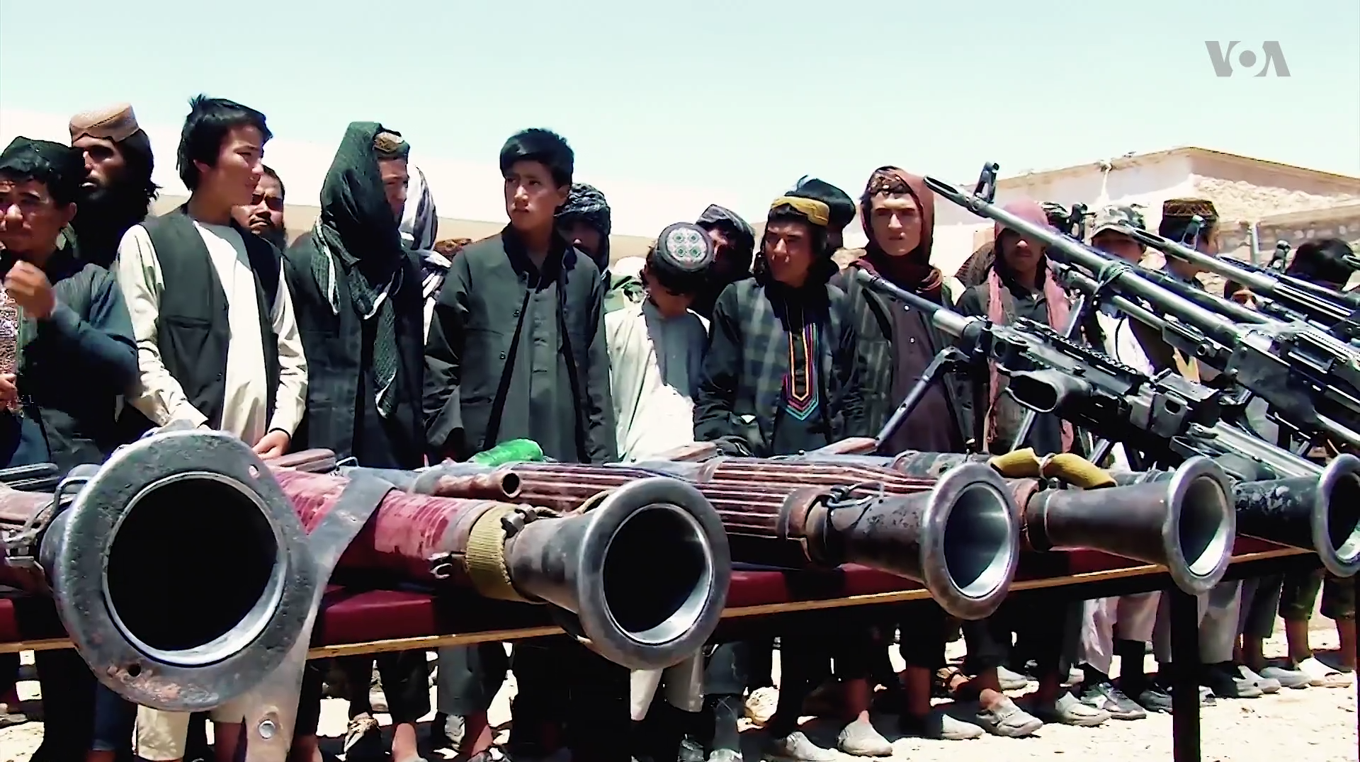 Islamic State fighters who have surrendered to Afghan government forces in April 2018, after having been defeated by the Taliban.